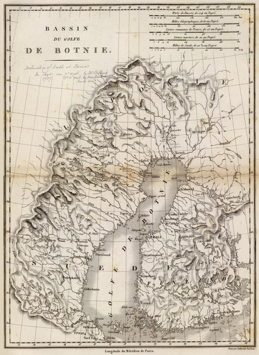 Map by Bory de Saint-Vincent, M. (Jean Baptiste Genevieve Marcellin), 1778-1846; Desmarest, Nicolas, 1725-1815; Golfe de Botnie. Publisher:Veuve Agasse Paris 36 x 26cm Grave par Ambroise Tardieu. MDCCCXXVII